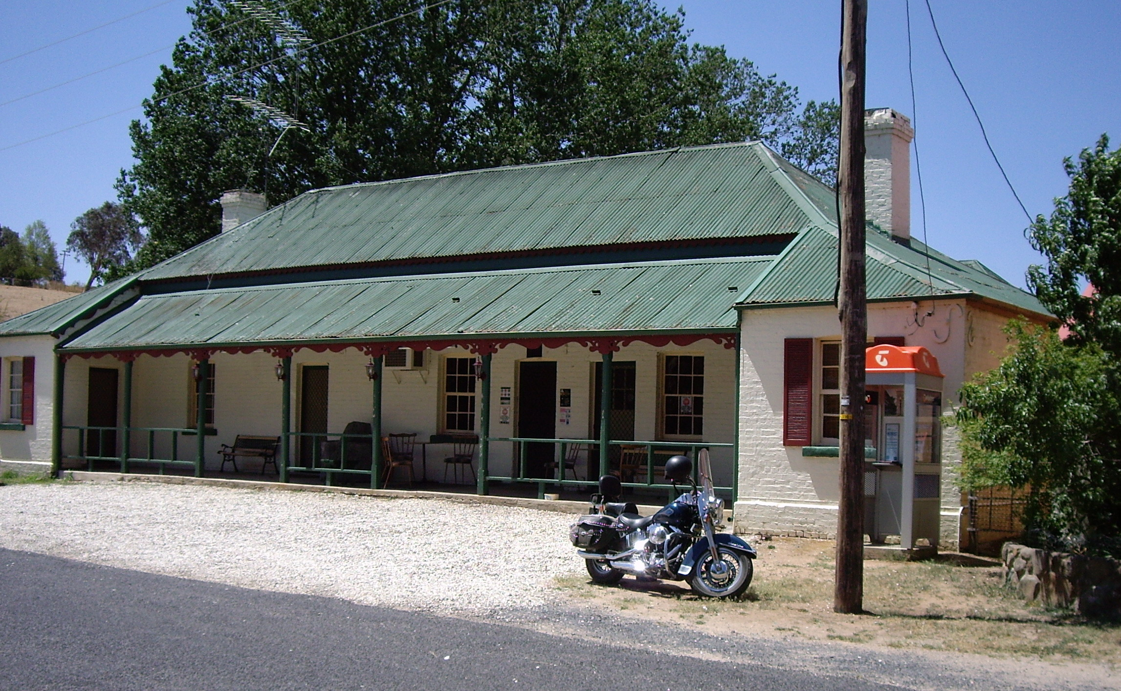 The Tooma Inn